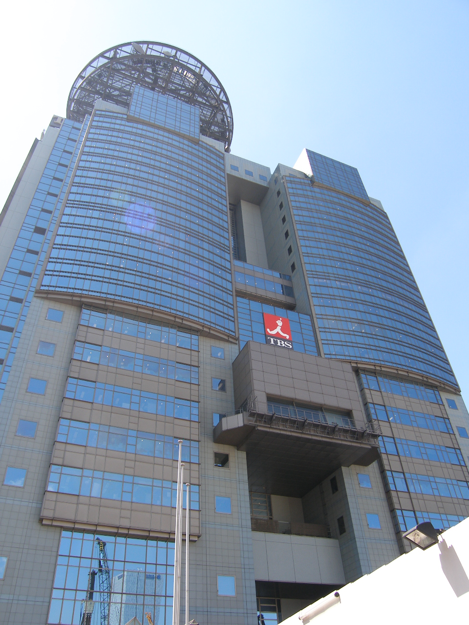 There is Tokyo Broadcasting System (TBS) in Tokyo Akasaka. One of broadcasting stations that represent Japan. It has an affiliated broadcasting station in various parts of Japan, and "JNN (Japan News Network) network" is formed. TBS redevelops the surrounding.